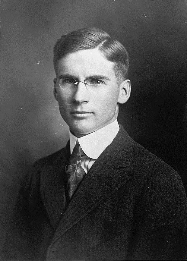 C. Ellis Moore, congressman from Cambridge, Ohio.